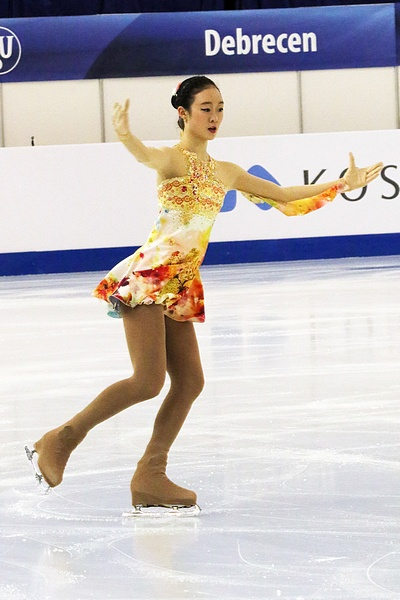 Photos – Junior World Championships 2016 – Ladies (Suh Hyun SON KOR – 23rd Place)